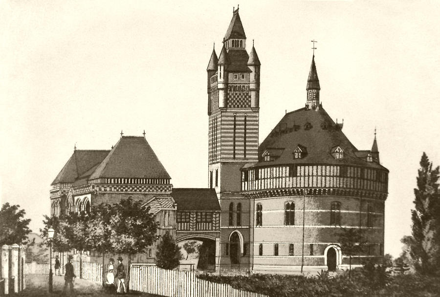 The original Shakespeare Memorial Theatre complex, Stratford on Avon, Warwickshire, England